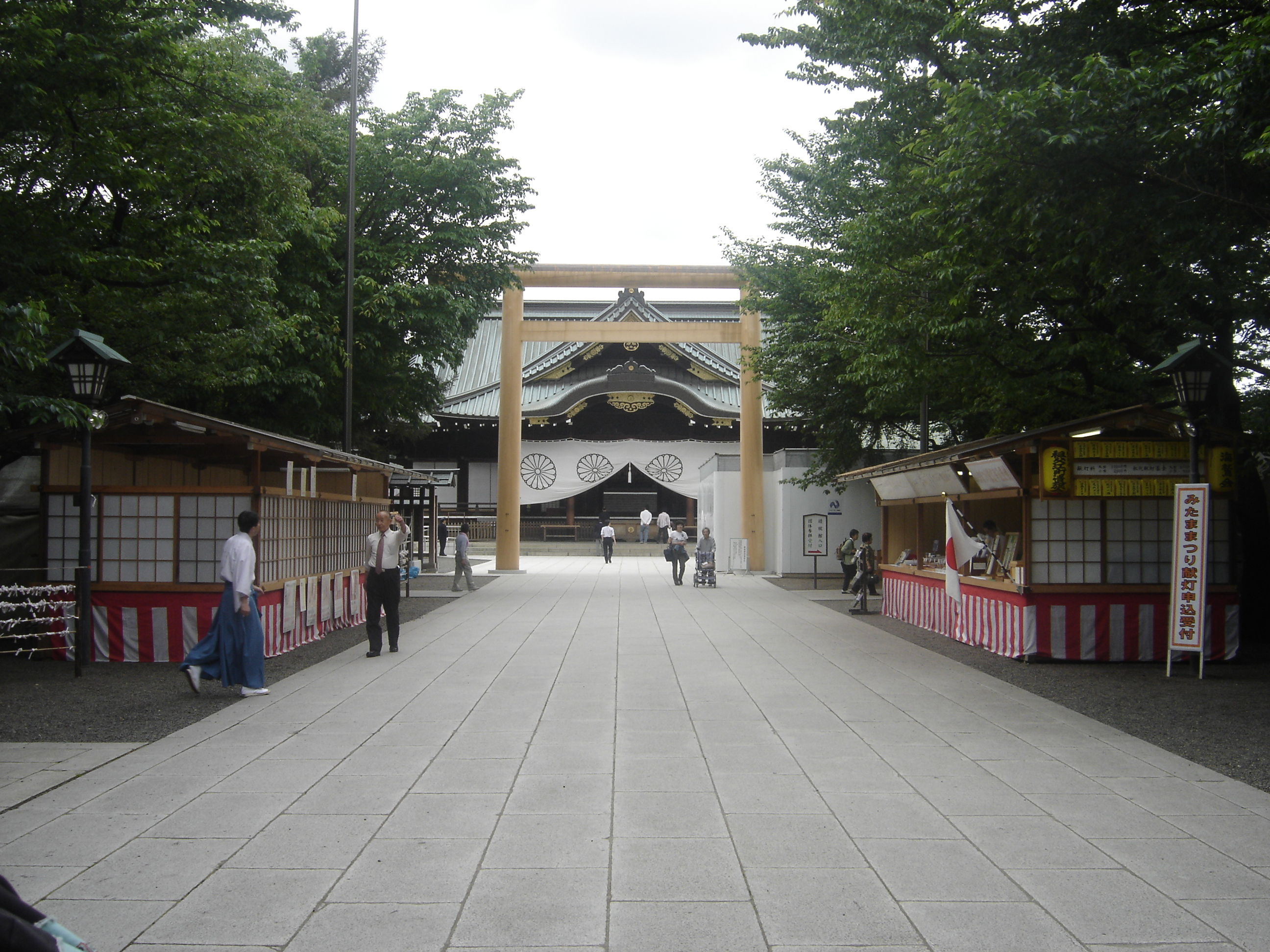 Chumon Torii.